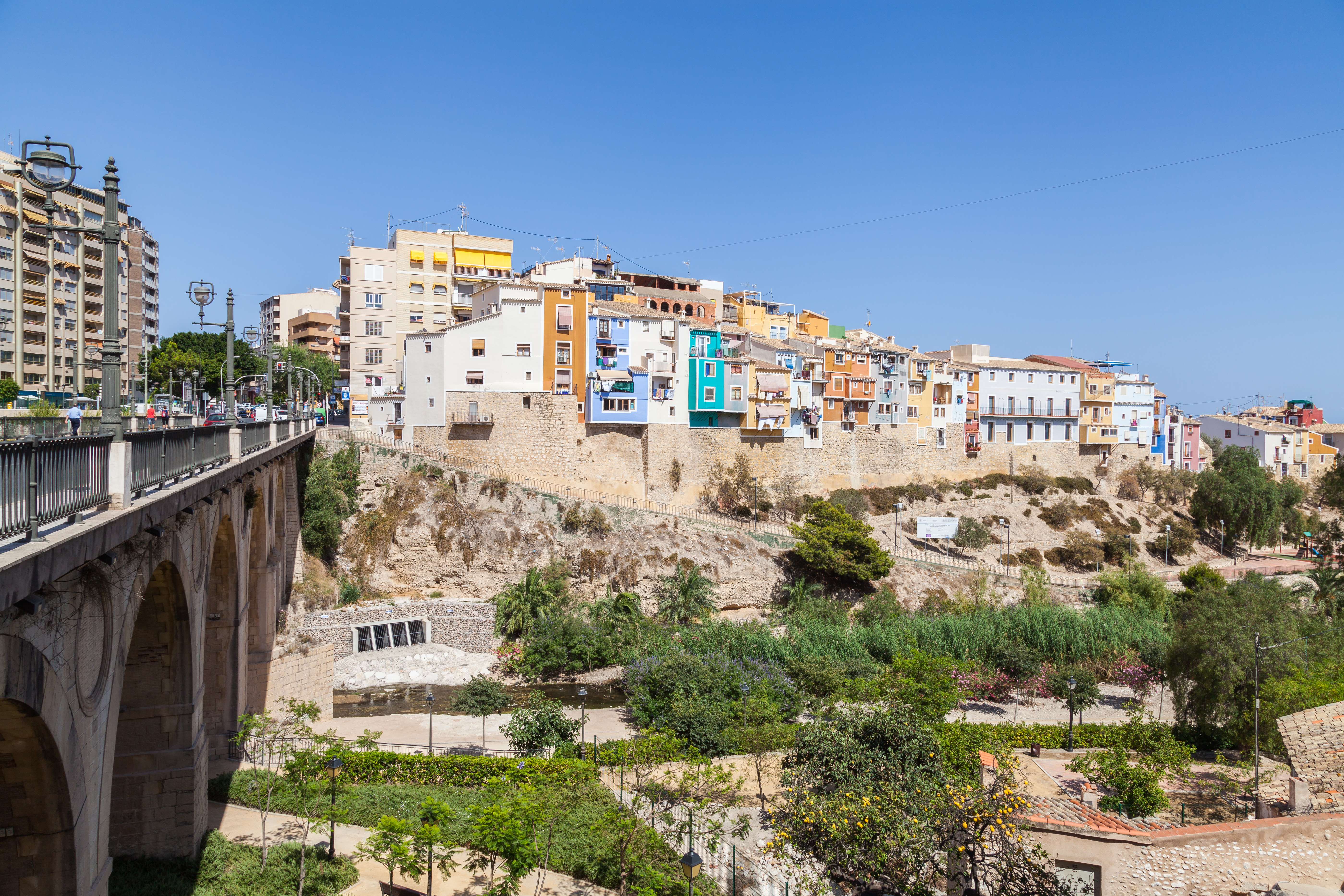 Villajoyosa, Spain